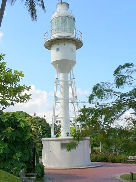 Fort Canning Lighthouse, Singapore.